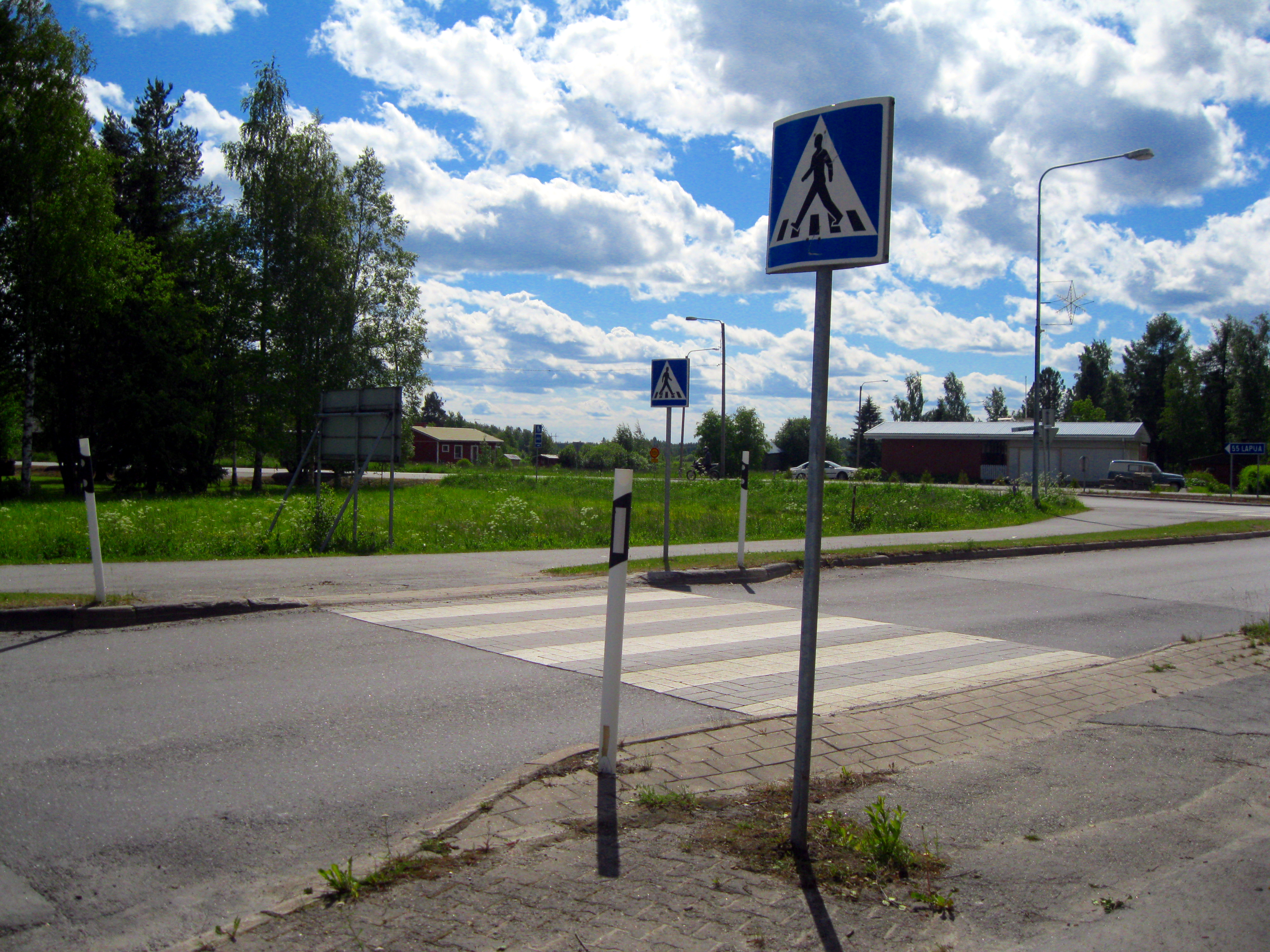 Pedestrian crossing in Vimpeli, Finland.